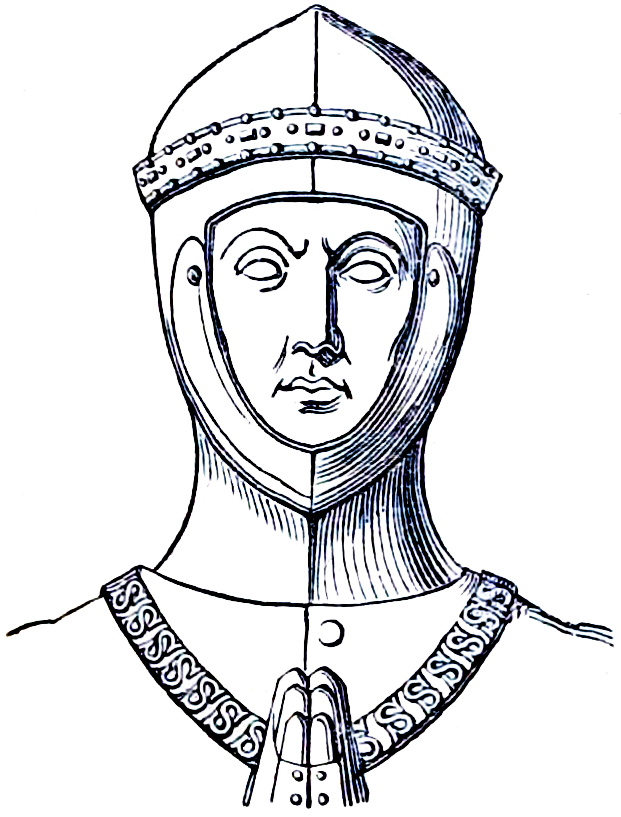 Drawing of effigy, made after Schebbelie's drawing depicted in Gough, Richard, Sepulchral Monuments in Great Britain vol 2 part 2 (London, 1796), p. 127